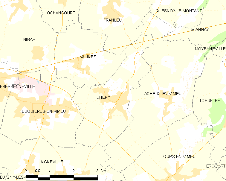 Map of French municipality Chépy